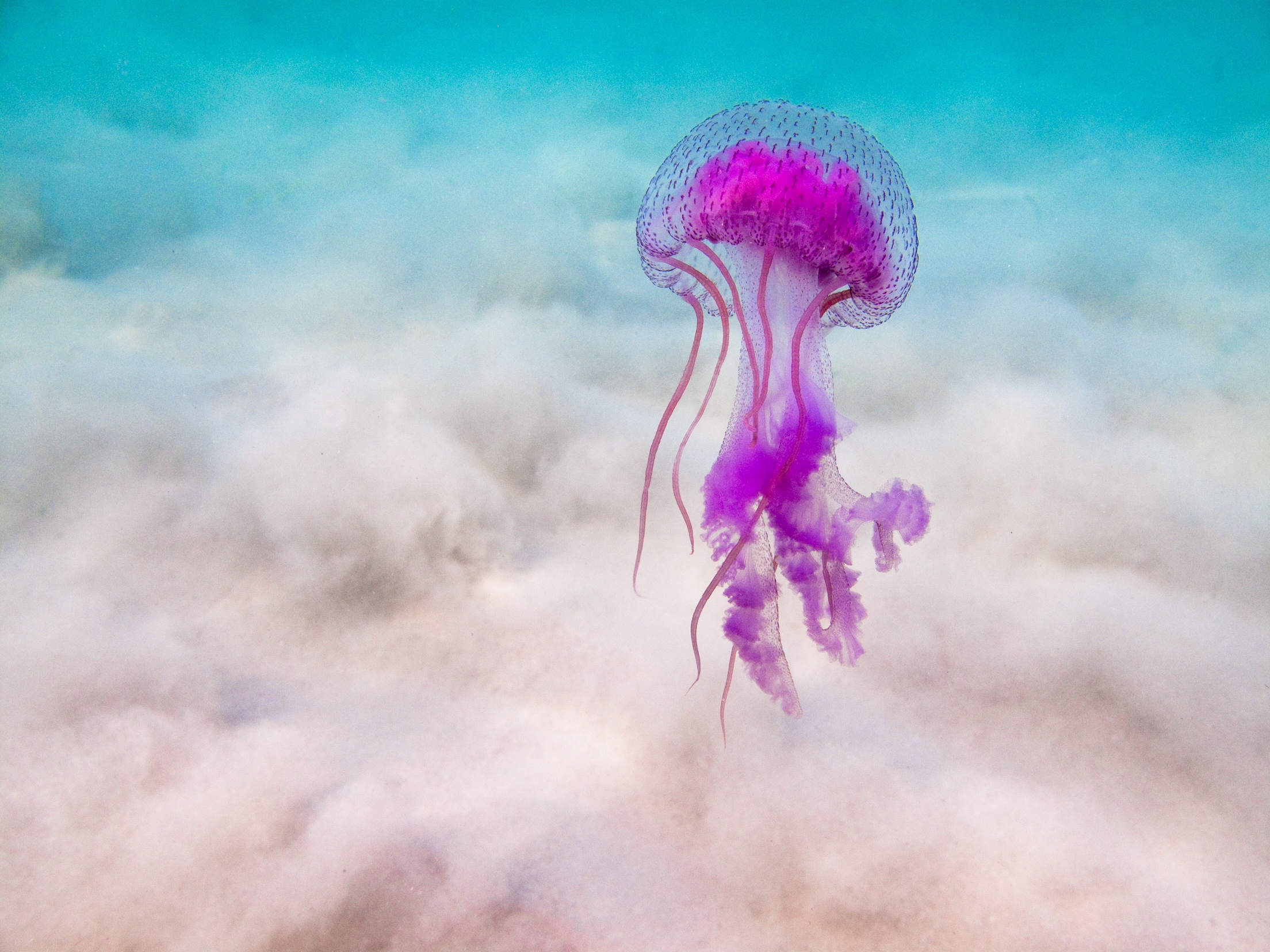 The Pelagia noctiluca jellyfish featured is a marine organism with the ability to glow in the dark. Light is emitted in the form of flashes when the medusa is stimulated by turbulence created by waves or by a ship's motion. This is typically an offshore species, although sometimes it is washed near the coastlines as was the case here. It was found in the Bronte-Coogee Aquatic Reserve which is centred on the extensive rocky shores and nearshore reefs of Sydney's Eastern Suburbs. Taken with a compact Canon G10 camera.